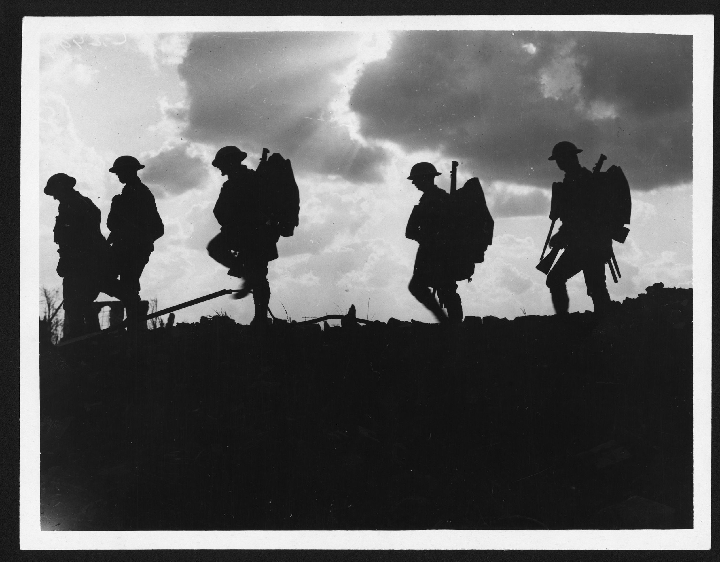 Five soldiers silhouetted against the sky. Rays of sun burst through dark clouds to create a dramatic and atmospheric shot. They are all wearing steel helmets, and three of them are clearly carrying rifles and backpacks.Original reads: 'BATTLE OF BROODSEYNDE [sic] RIDGE. - TROOPS MOVING UP AT EVENTIDE. MEN OF A YORKSHIRE REGIMENT ON THE MARCH.'The Imperial War Museum caption (Q 2978) gives "A silhouetted file of men of the 8th Battalion, East Yorkshire Regiment going up to the line near Frezenberg.")